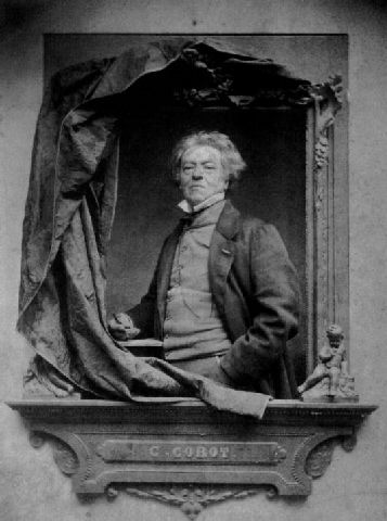 Photograph of Camille Corot by Adolphe Dallemagne. Albumen Print, 22,9 x 17,5 cm.